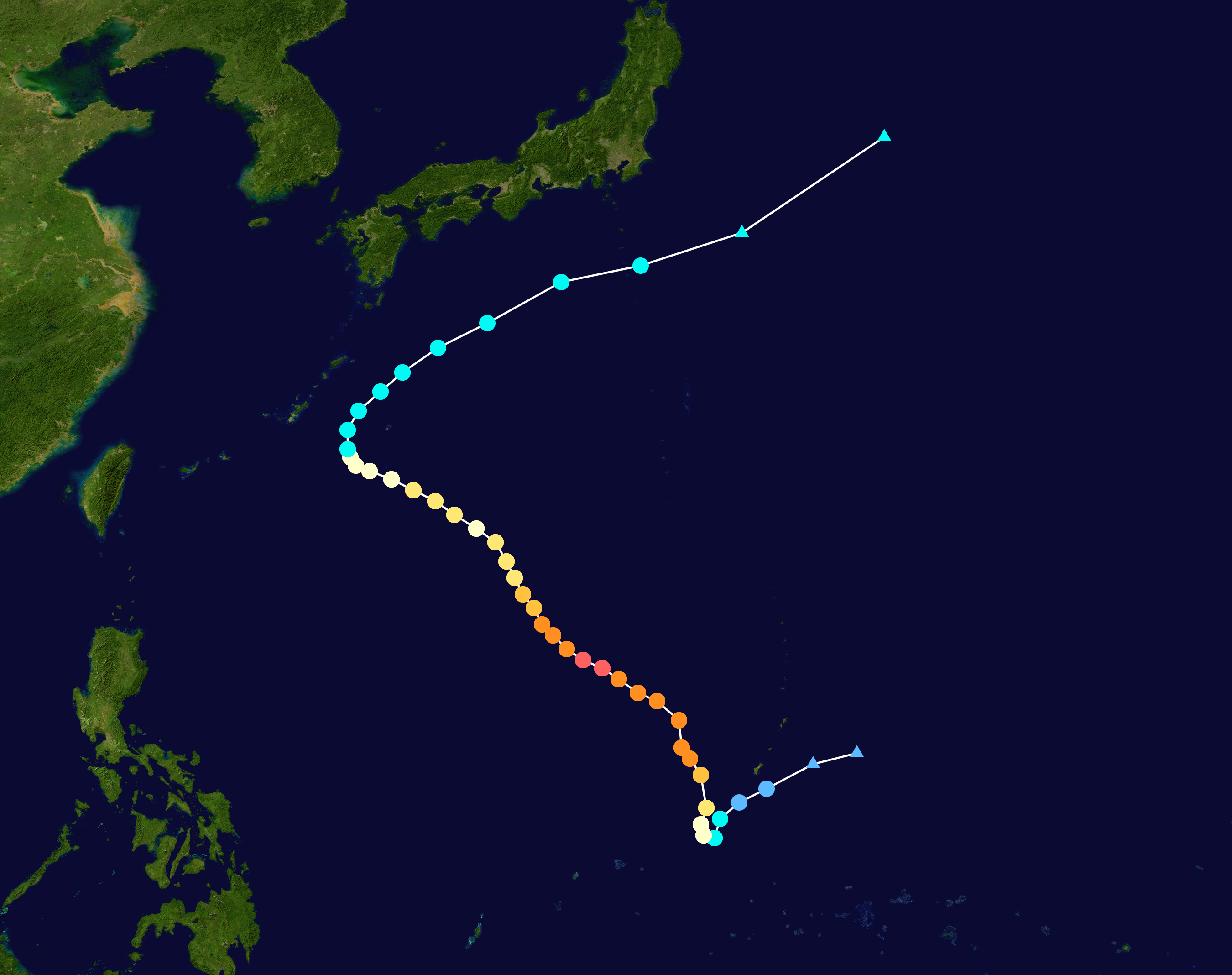 Track map of Typhoon Francisco of the 2013 Pacific typhoon season. The points show the location of the storm at 6-hour intervals. The colour represents the storm's maximum sustained wind speeds as classified in the Saffir–Simpson scale (see below), and the shape of the data points represent the nature of the storm, according to the legend below. Saffir–Simpson scale Tropical depression≤38 mph≤62 km/h Category 3111–129 mph178–208 km/h Tropical storm39–73 mph63–118 km/h Category 4130–156 mph209–251 km/h Category 174–95 mph119–153 km/h Category 5≥157 mph≥252 km/h Category 296–110 mph154–177 km/h Unknown Storm type Tropical cyclone Subtropical cyclone Extratropical cyclone / Remnant low / Tropical disturbance / Monsoon depression